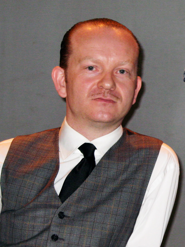 German electronic musician Uwe Schmidt (Atom Heart) and Thomas Fehlmann during a panel at MUTEK10 in Montreal, Canada